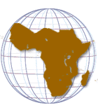 Seal of The Bureau of African Affairs